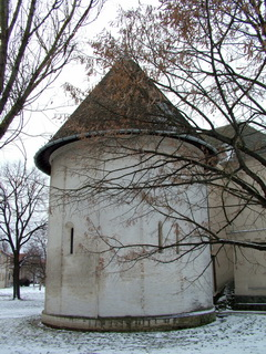 The rotunda of Kiszombor.